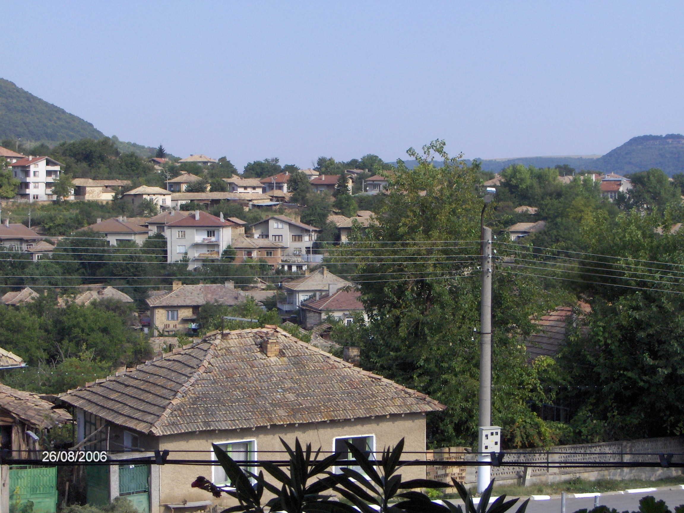 View to the town of Opaka, Bulgaria